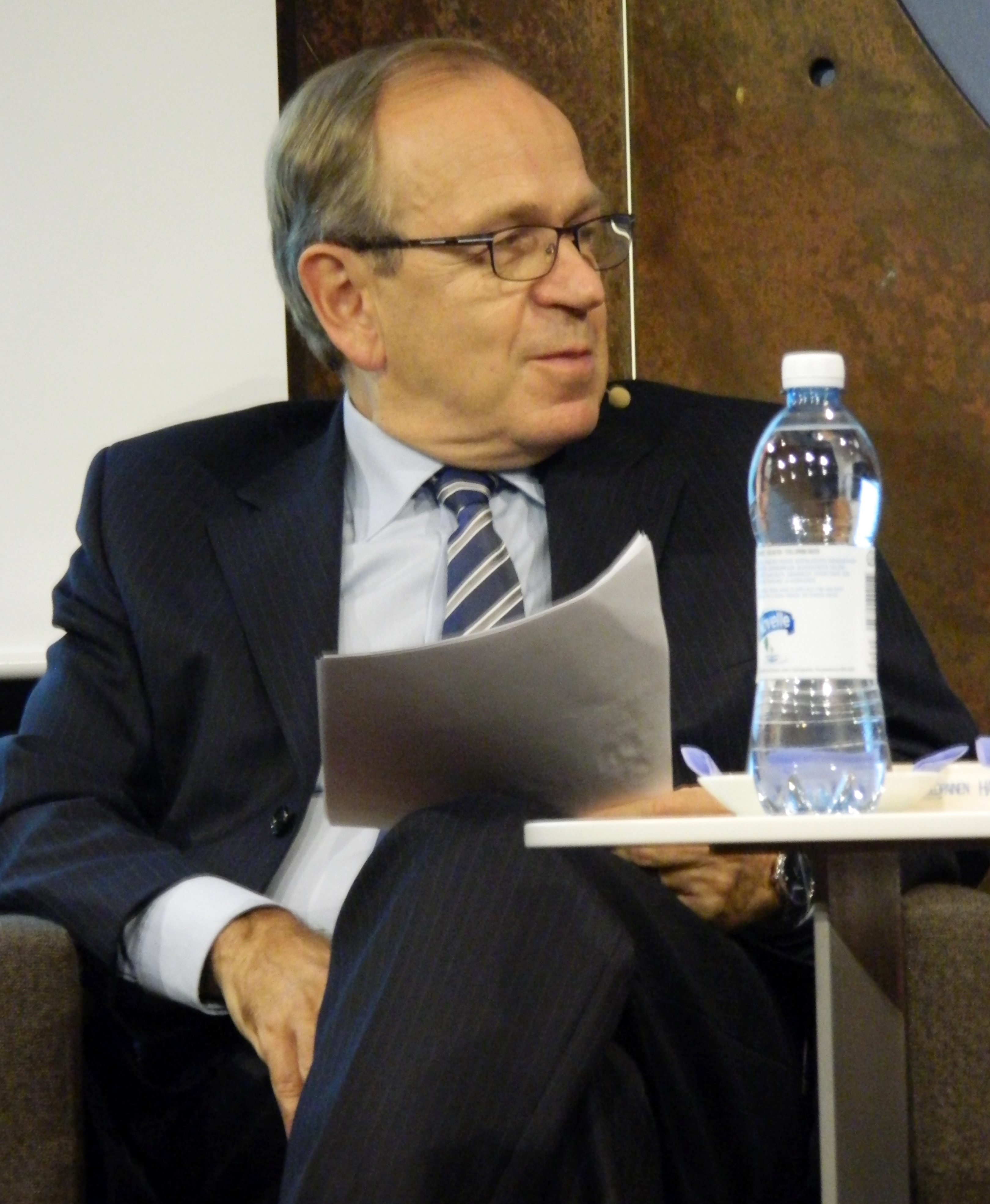 Ilkka Kanerva at Bank of Finland, in history seminar, 2016